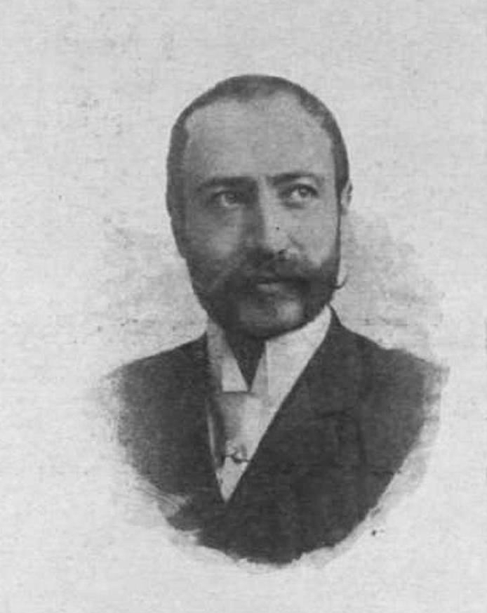 Tihamér Margitay